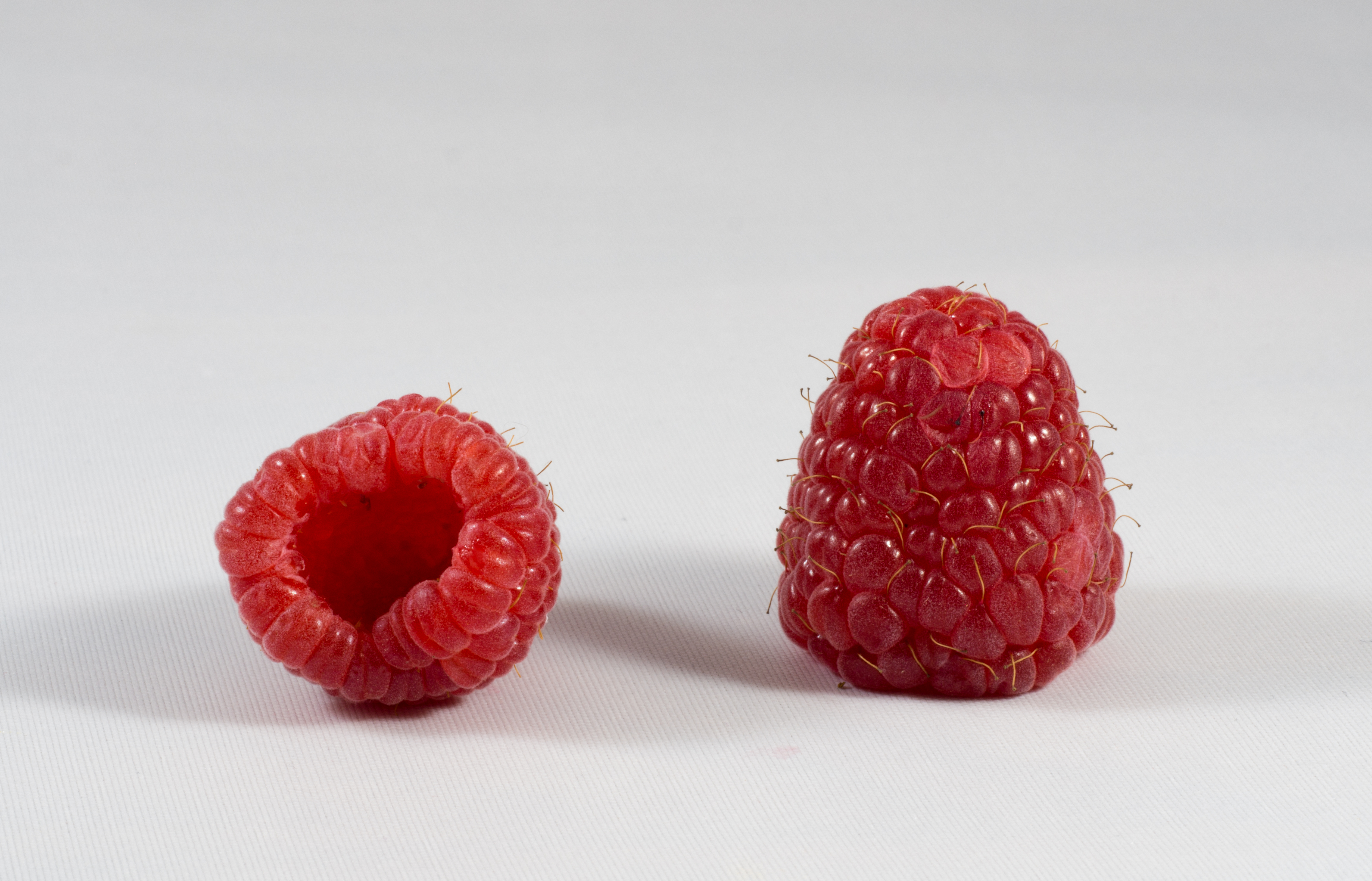 Two raspberries thoughtfully arranged.